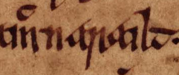 An excerpt from folio 17r of Oxford Bodleian Library MS Rawlinson B 488 (the Annals of Tigernach). The excerpt concerns Ímar mac Arailt, King of Dublin (died 1054).